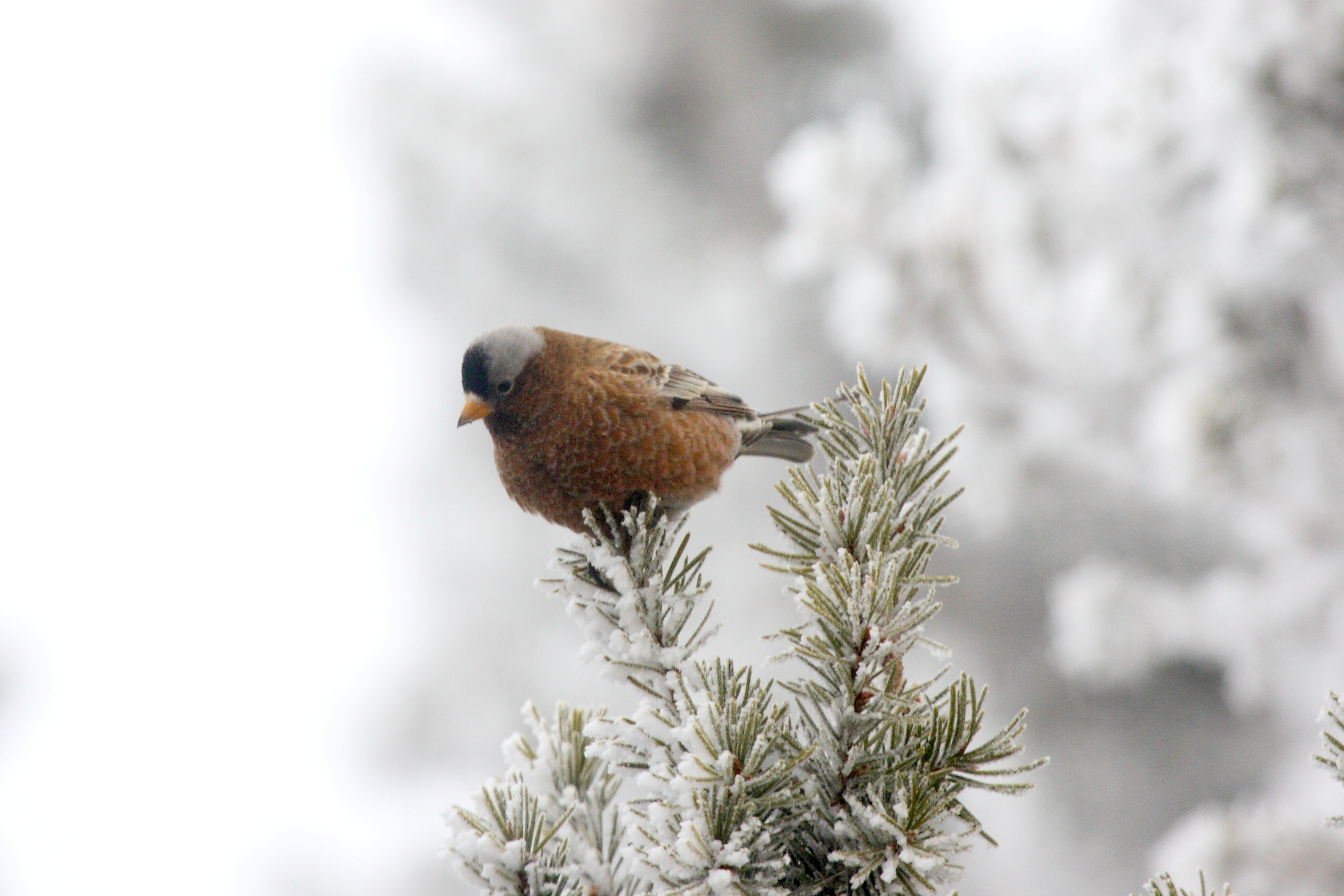 Gray-crowned Rosy-finch (Leucosticte tephrocotis)